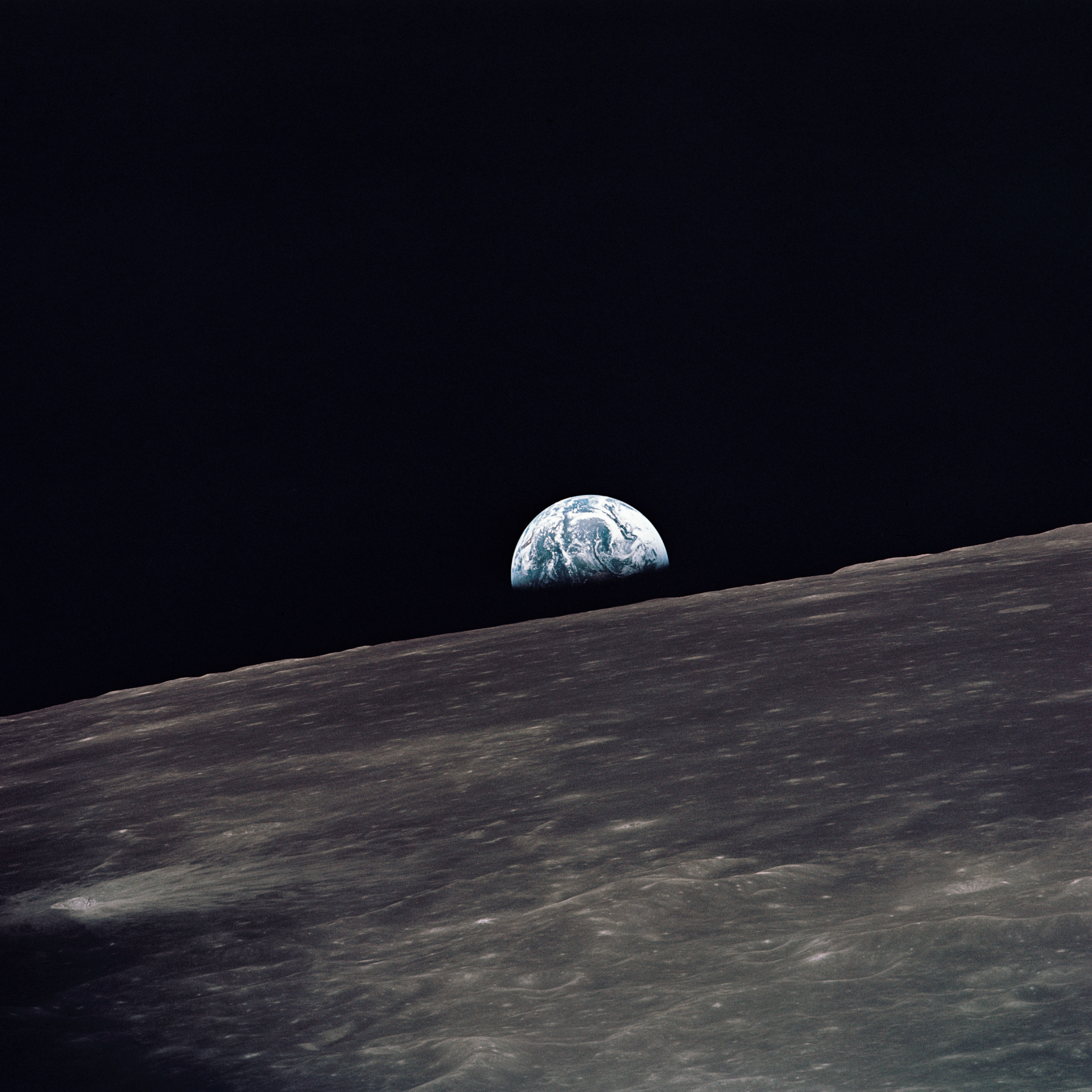 A view of Earth rising above the lunar horizon photographed from the Apollo 10 Lunar Module, looking west in the direction of travel. The Lunar Module at the time the picture was taken was located above the lunar farside highlands at approximately 105 degrees east longitude. (NASA)